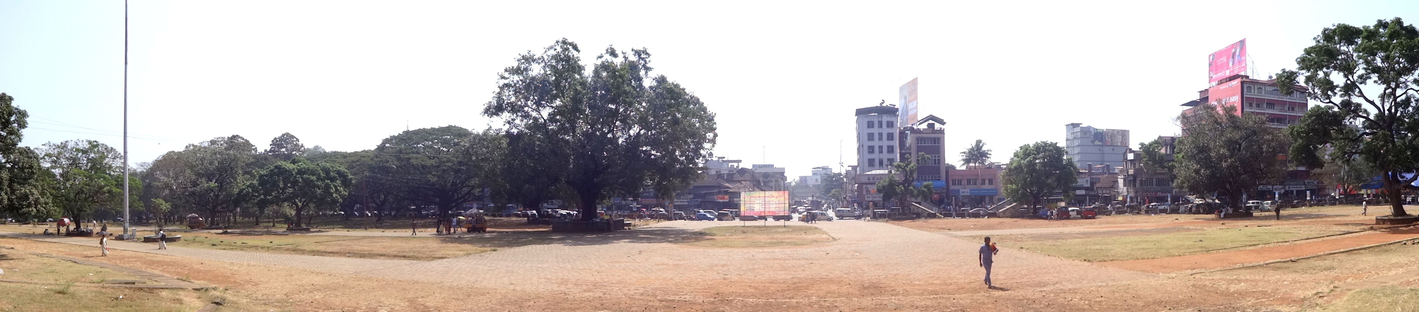 Thekkinkadu Maidan is an urban open space situated in the middle of Thrissur city